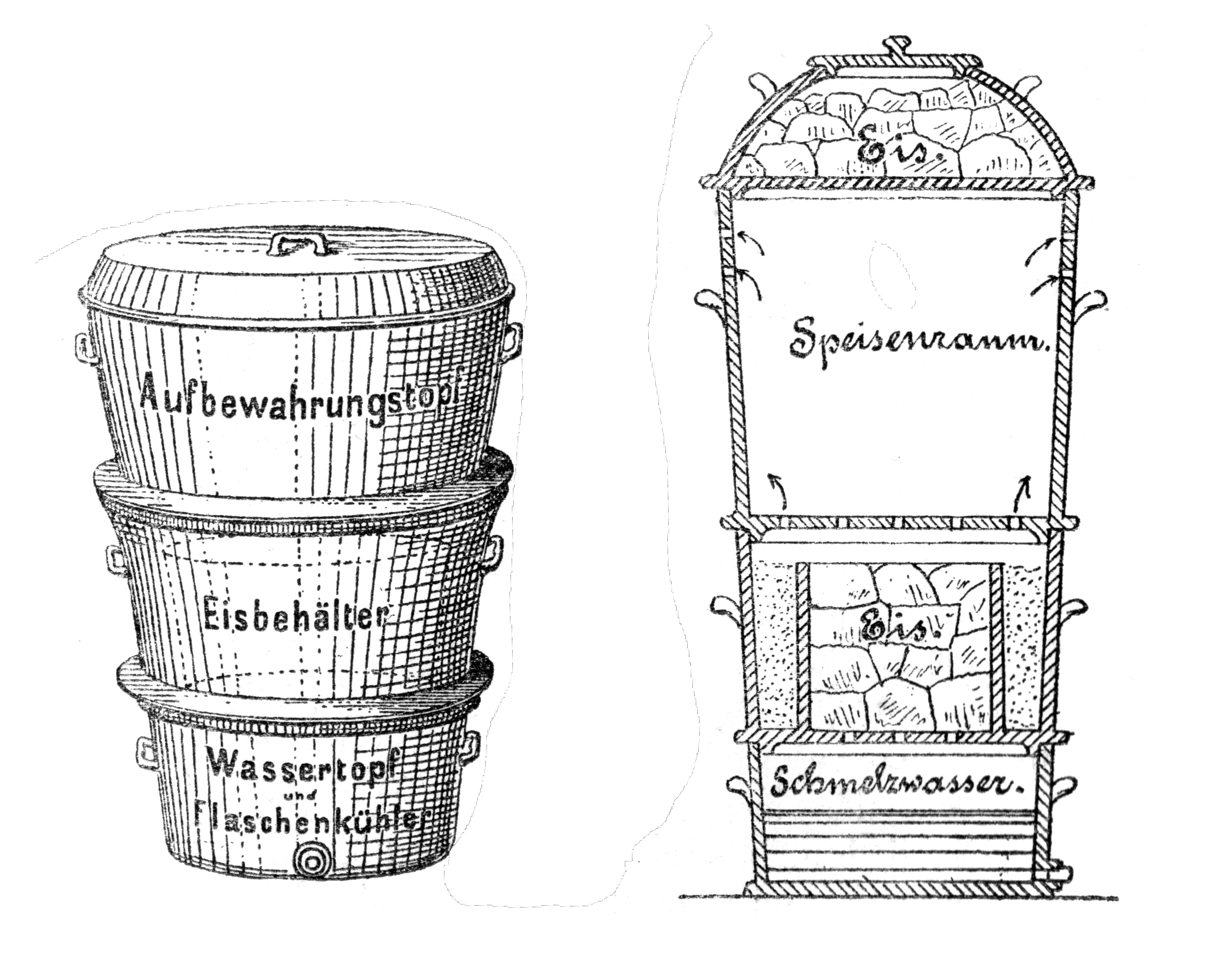 Ink drawing of the view and section of an icepot to demonstrate its function.